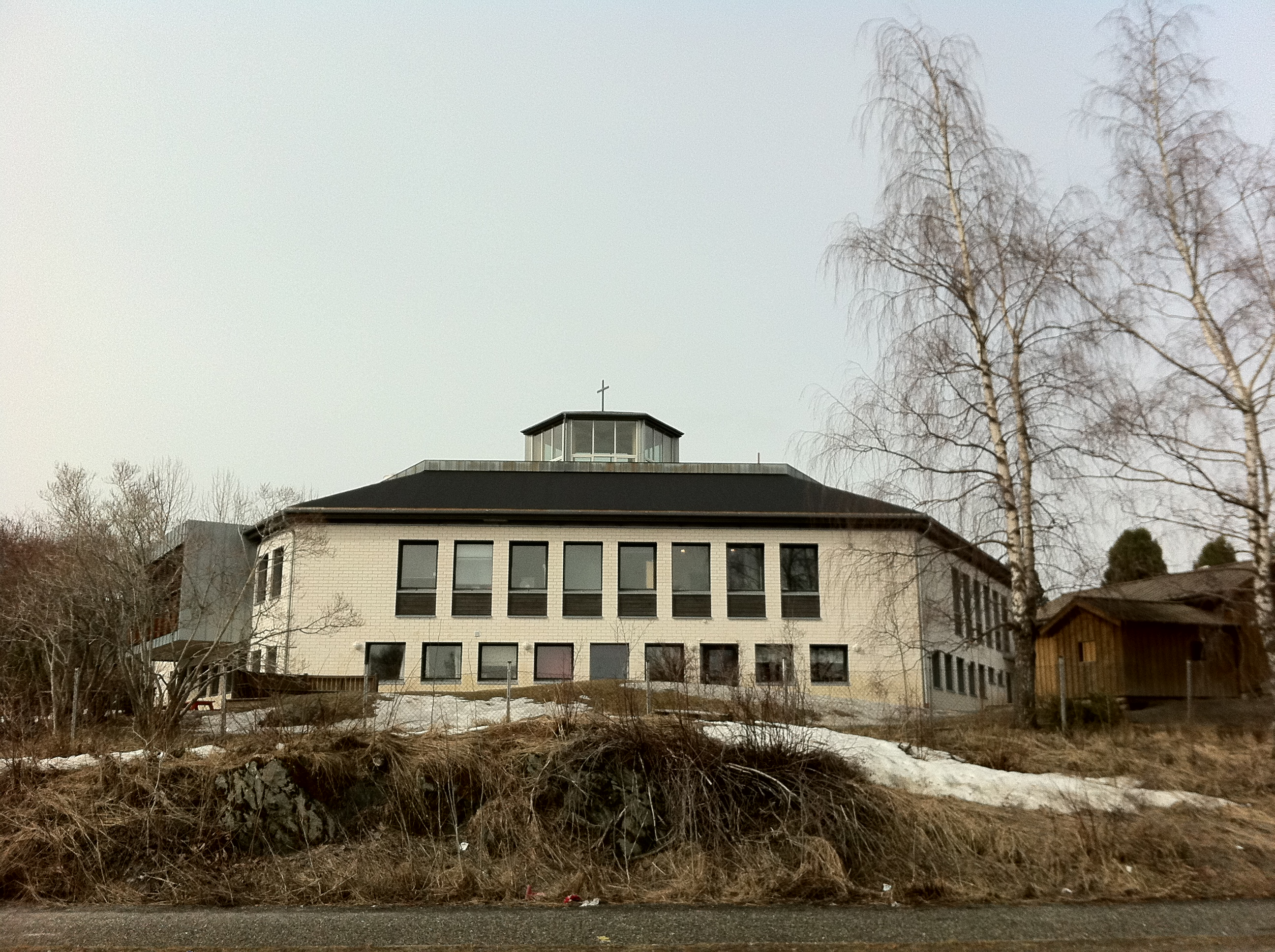 Byåsen church in Trondheim, Norway. 1974. Architect: Arnstad & Heggenhougen. Architect for the refurbishment and renovation in 2004: Eggen arkitekter.